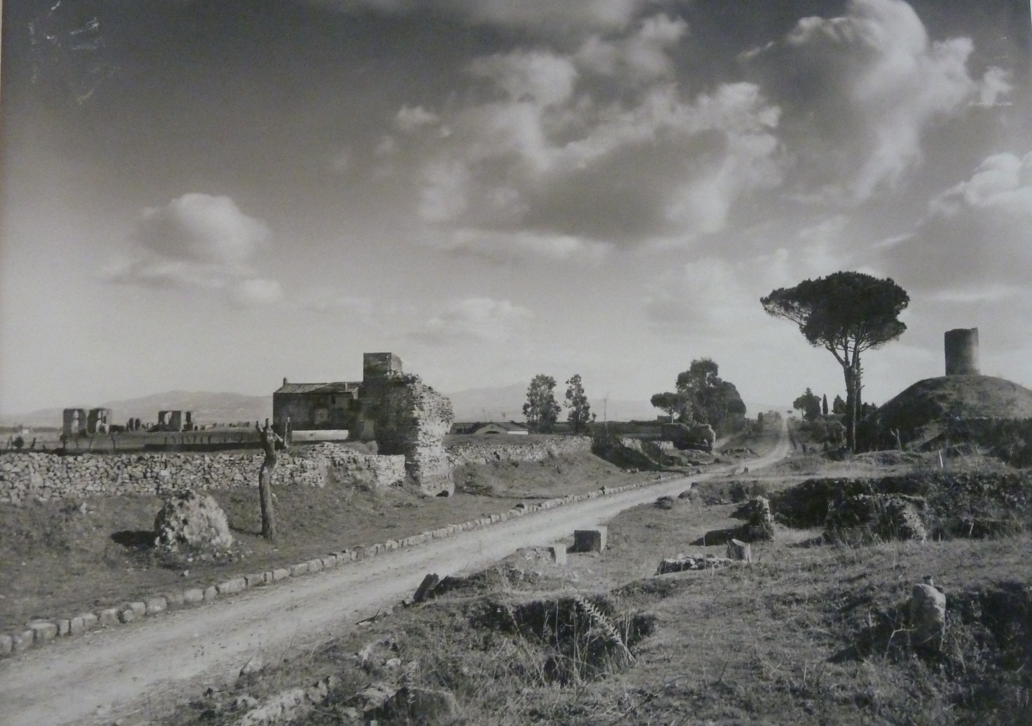 Via Appia Antica 1900